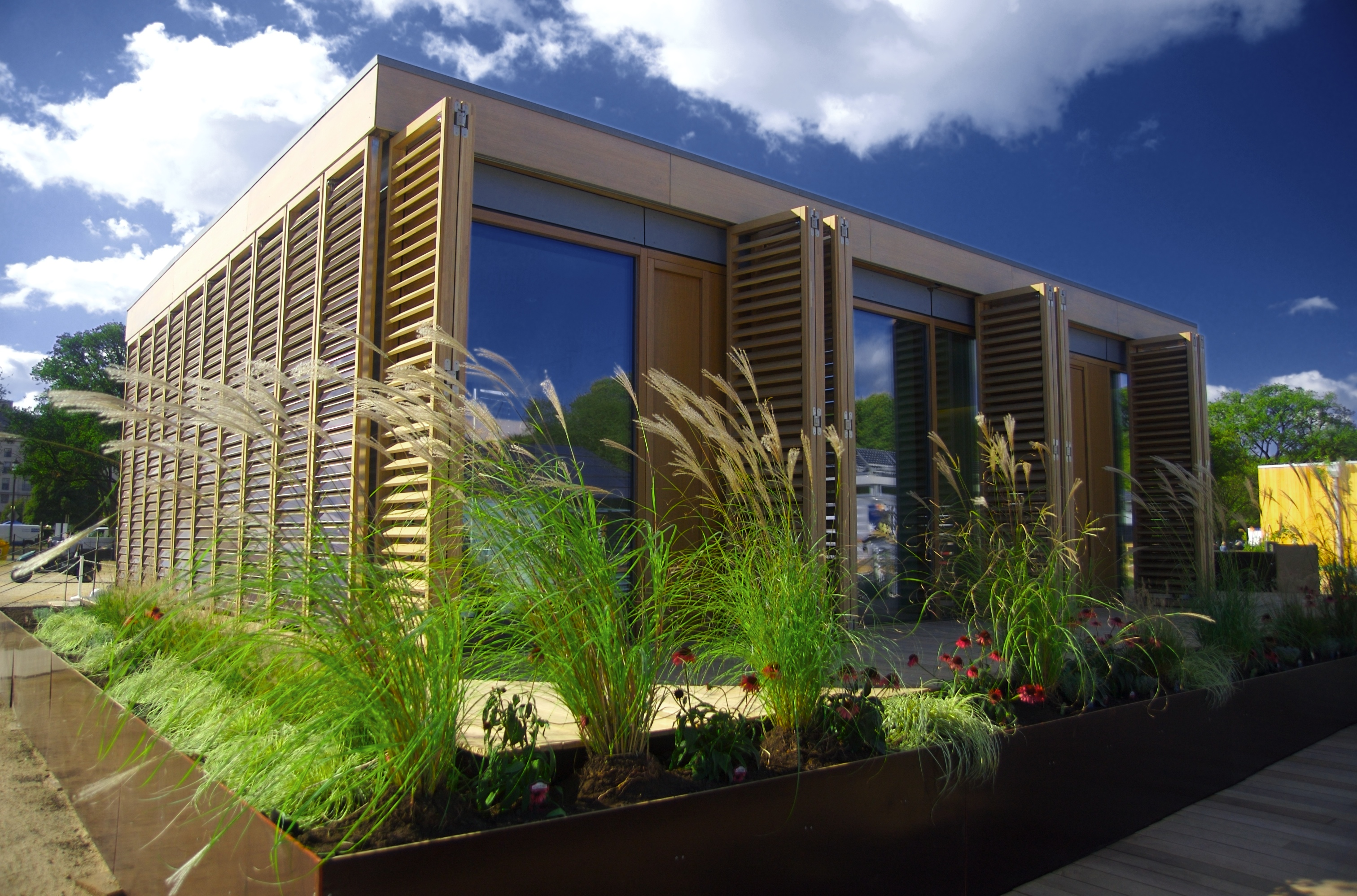 Technische Universität Darmstadt (Darmstadt University of Technology) in Darmstadt, Germany. Winner of the 2007 Solar Decathlon[1].